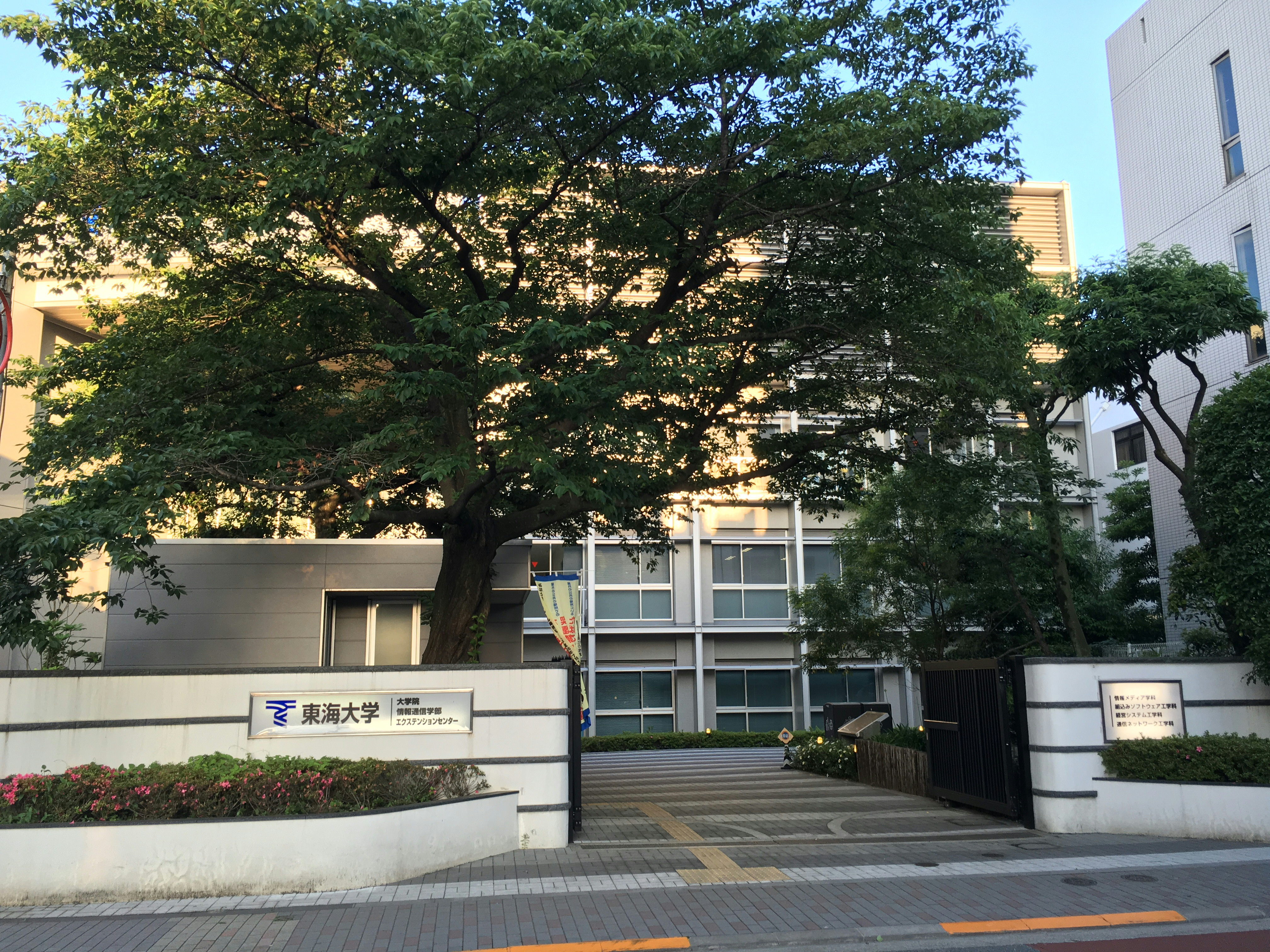 Tokai University, Takanawa Campus Building 2